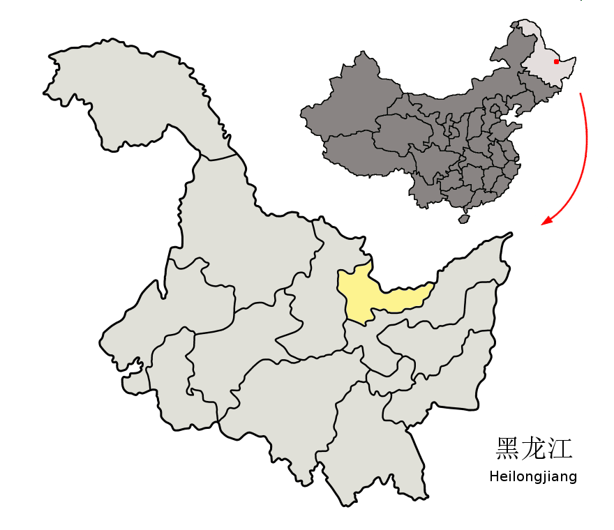 Location of Hegang Prefecture (yellow) within Heilongjiang Province of China Map drawn in november 2007 using various sources, mainly : Heilongjiang Province administrative regions GIS data: 1:1M, County level, 1990 Heilongjiang Counties map from